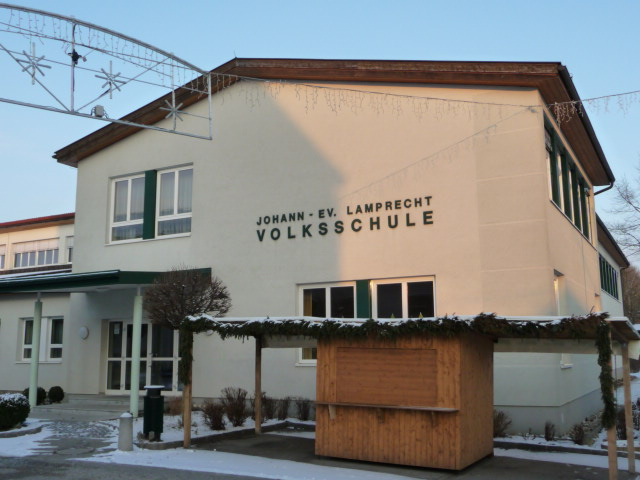 Sigharting primary school